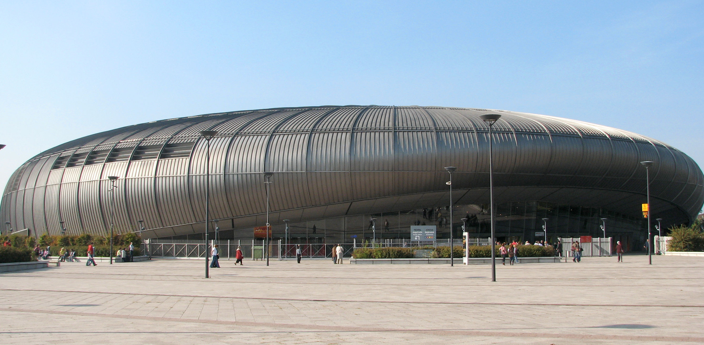 Papp László sporthall in Budapest, Hungary